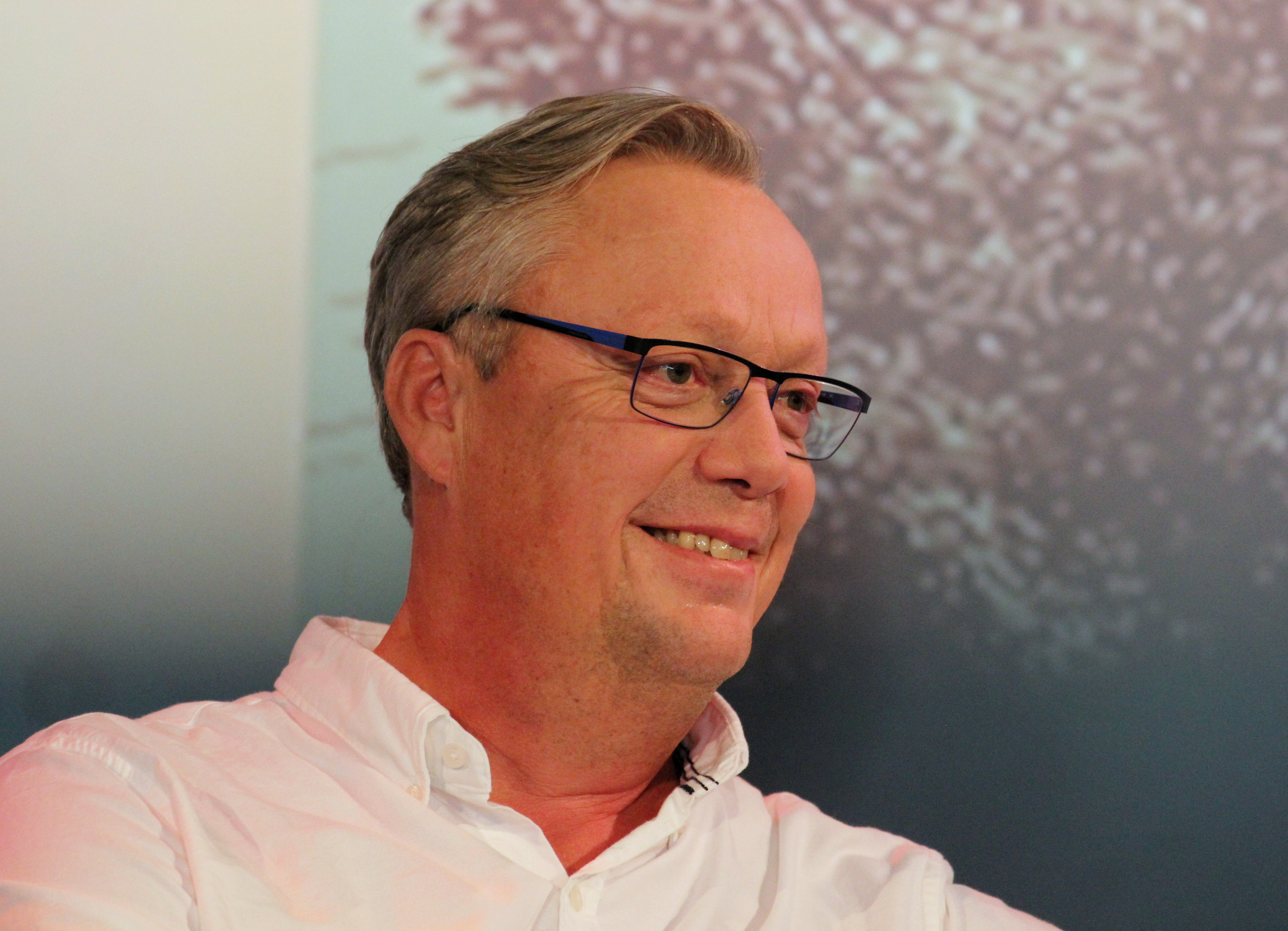 Jonas Jonasson Frankfurt Book Fair 2018